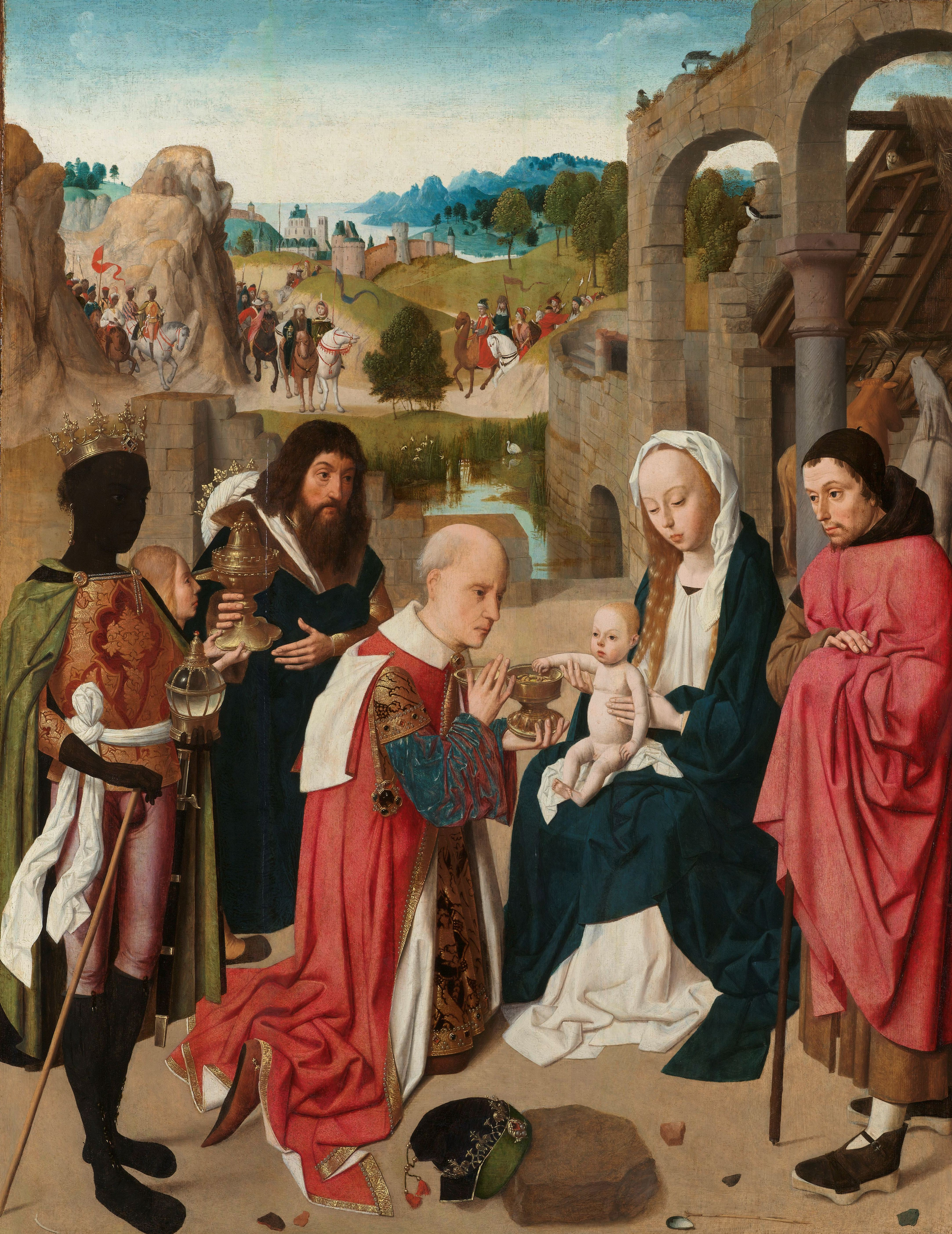 On the right the holy family in front of the stable in a ruin. On the left the three magi with their gifts. In the background the retinue of each of the three magi. The three magi represent three generations and the three continents known in the Middle Ages: Europe, Asia and Africa.